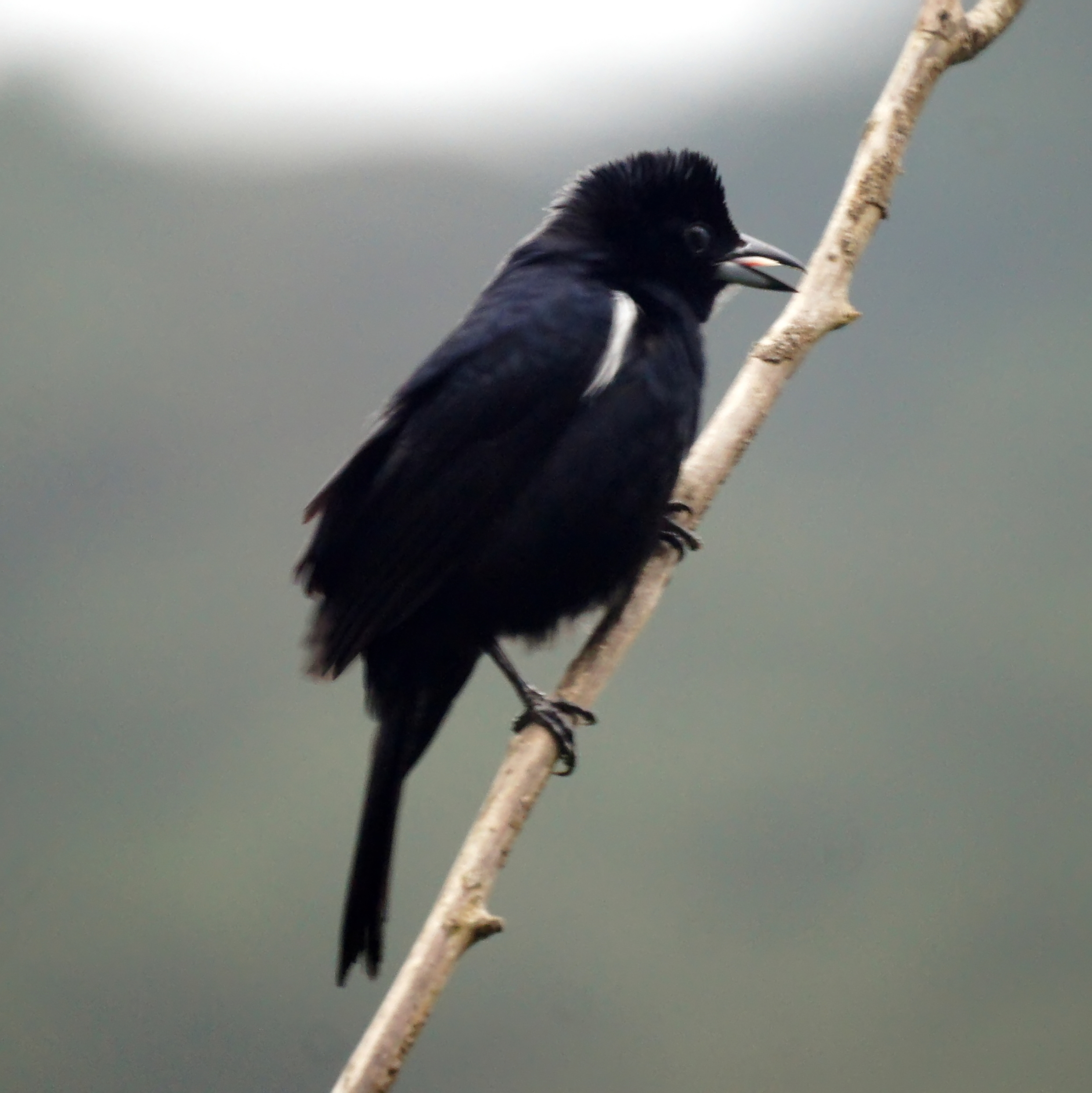 White-lined Tanager Tachyphonus rufus male